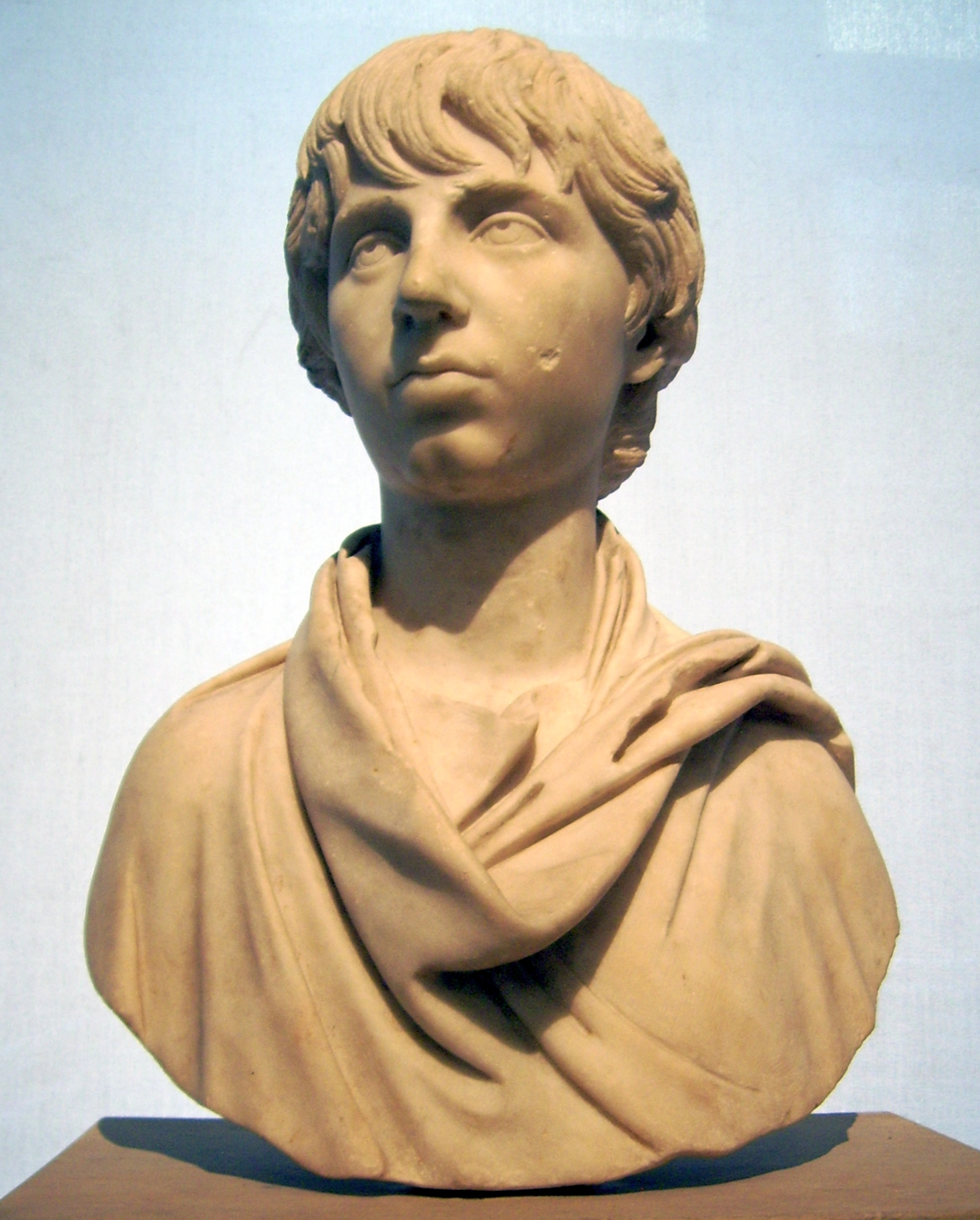 Bust of Polydeukes, lover and pupil of the Greek rhetor and millionaire maecenas Herodes Atticus, who died in young age in 173/174 and was (literally) the object of worship from Herodes. From Athens, 170s.